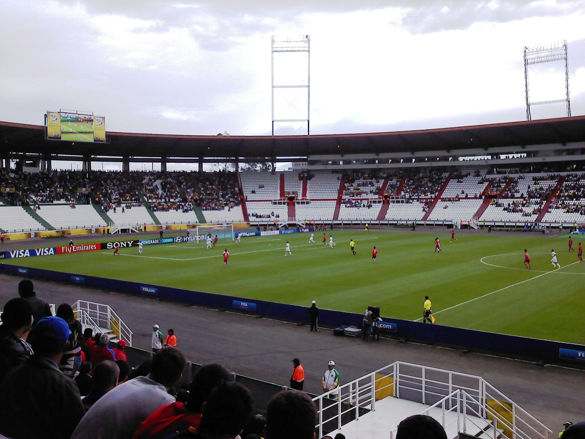 Match between Costa Rica and Spain. Palogrande stadium, Manizales. 2011 FIFA U-20 World Cup.